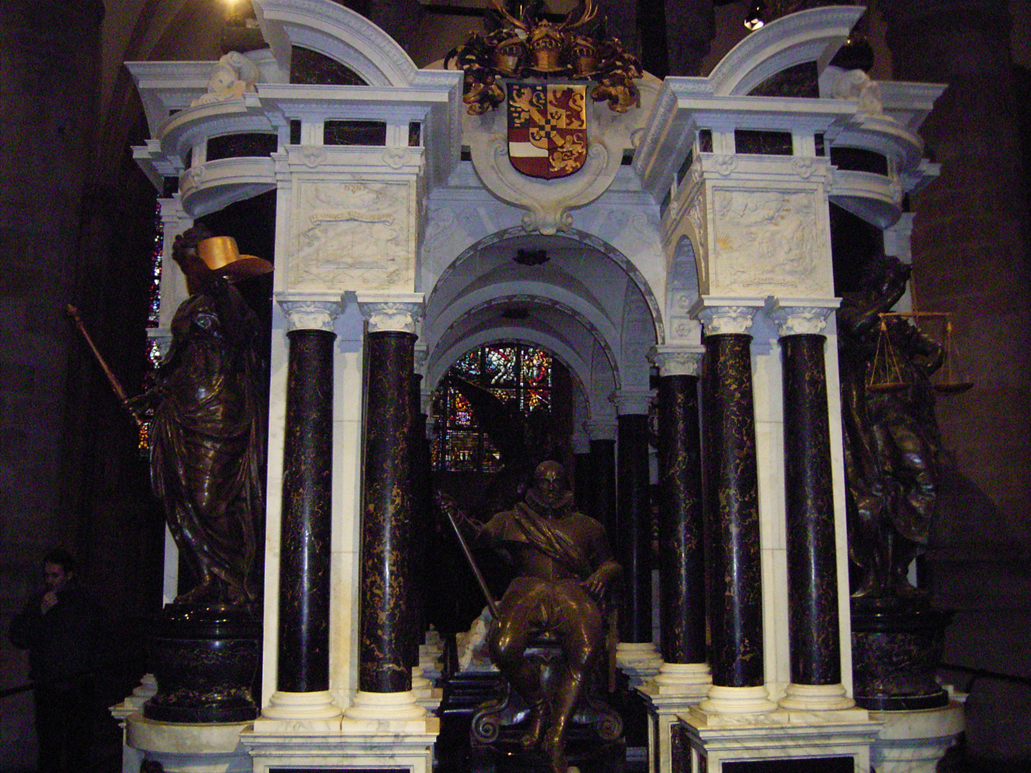 Deze foto toont het praalgraf van Willem van Oranje. Ik nam de foto tijdens een bezoek aan de nieuwe kerk in Delft. This photo shows the mausoleum of William the Silent. I took the photo with permission from one of the guides at a visit to the new church in Delft.